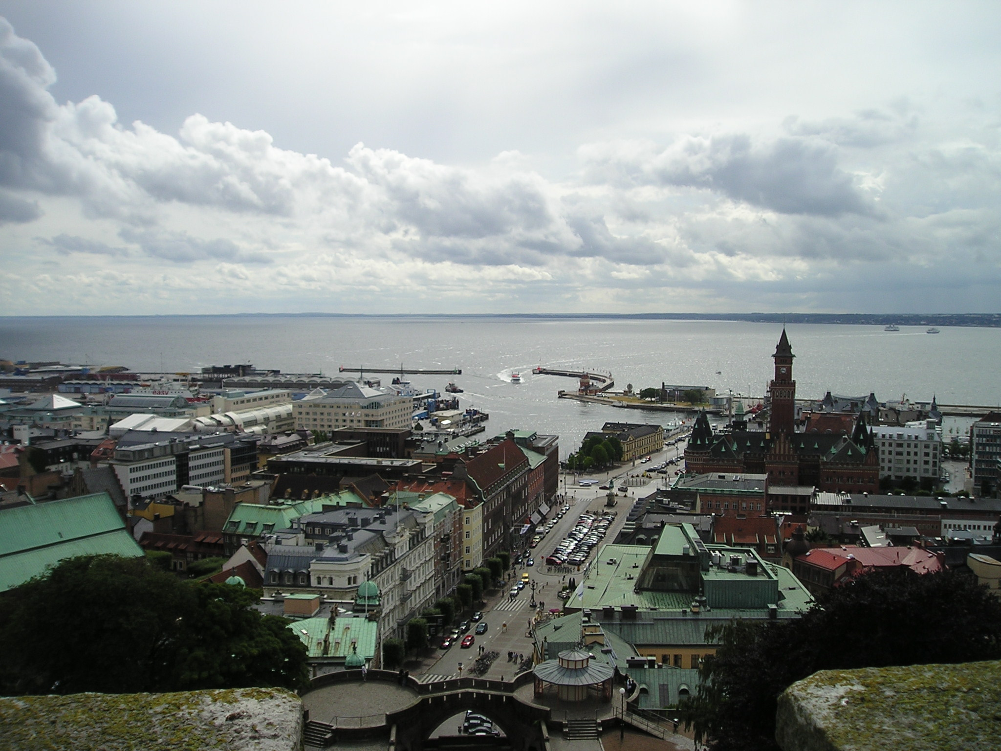 View from Kärnan to Helsingborg harbour, Sweden